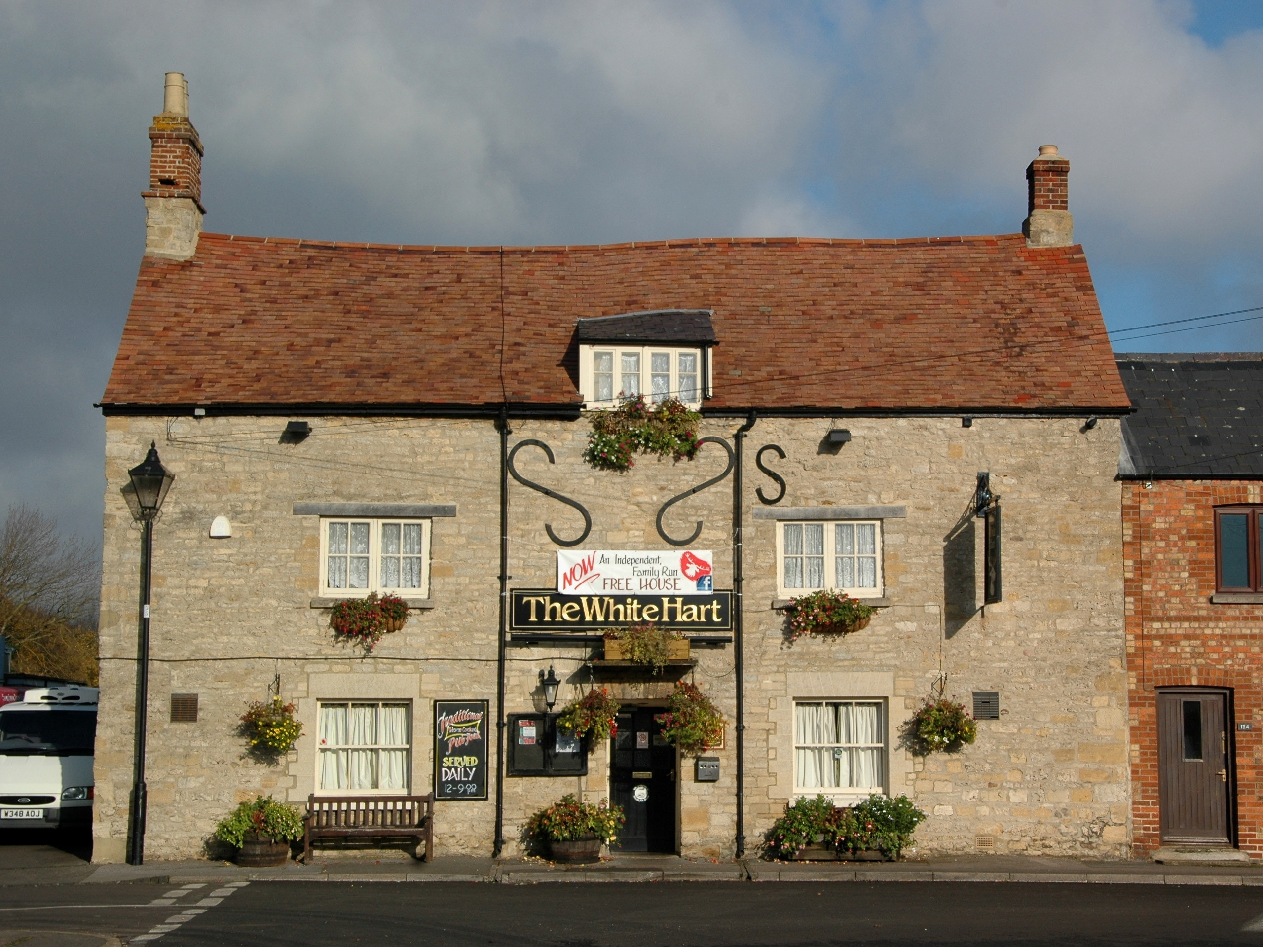 White Hart public house, 126 Godstow Road, Wolvercote, Oxfordshire